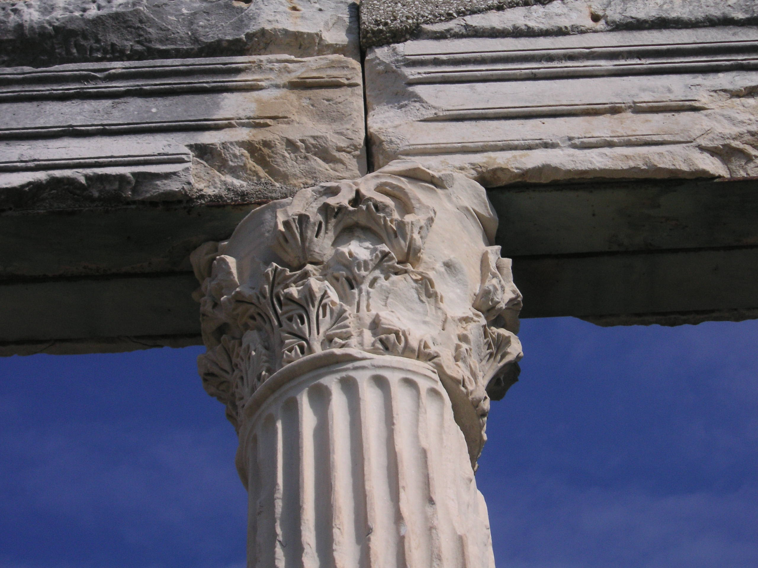 Corinthian Capstone in Apollonia, Fier, Albania